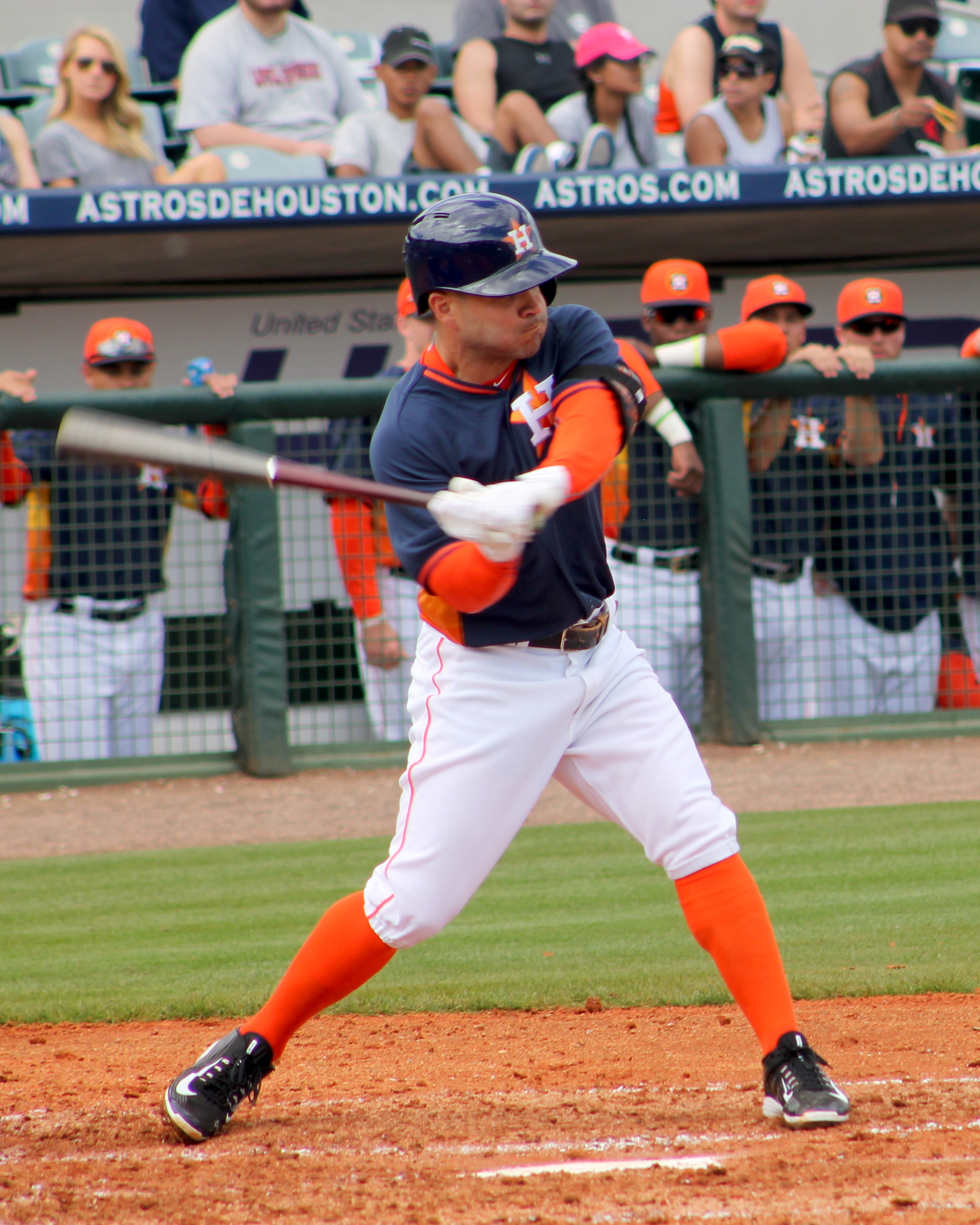 Professional baseball player José Altuve at spring training with the Houston Astros in 2015.